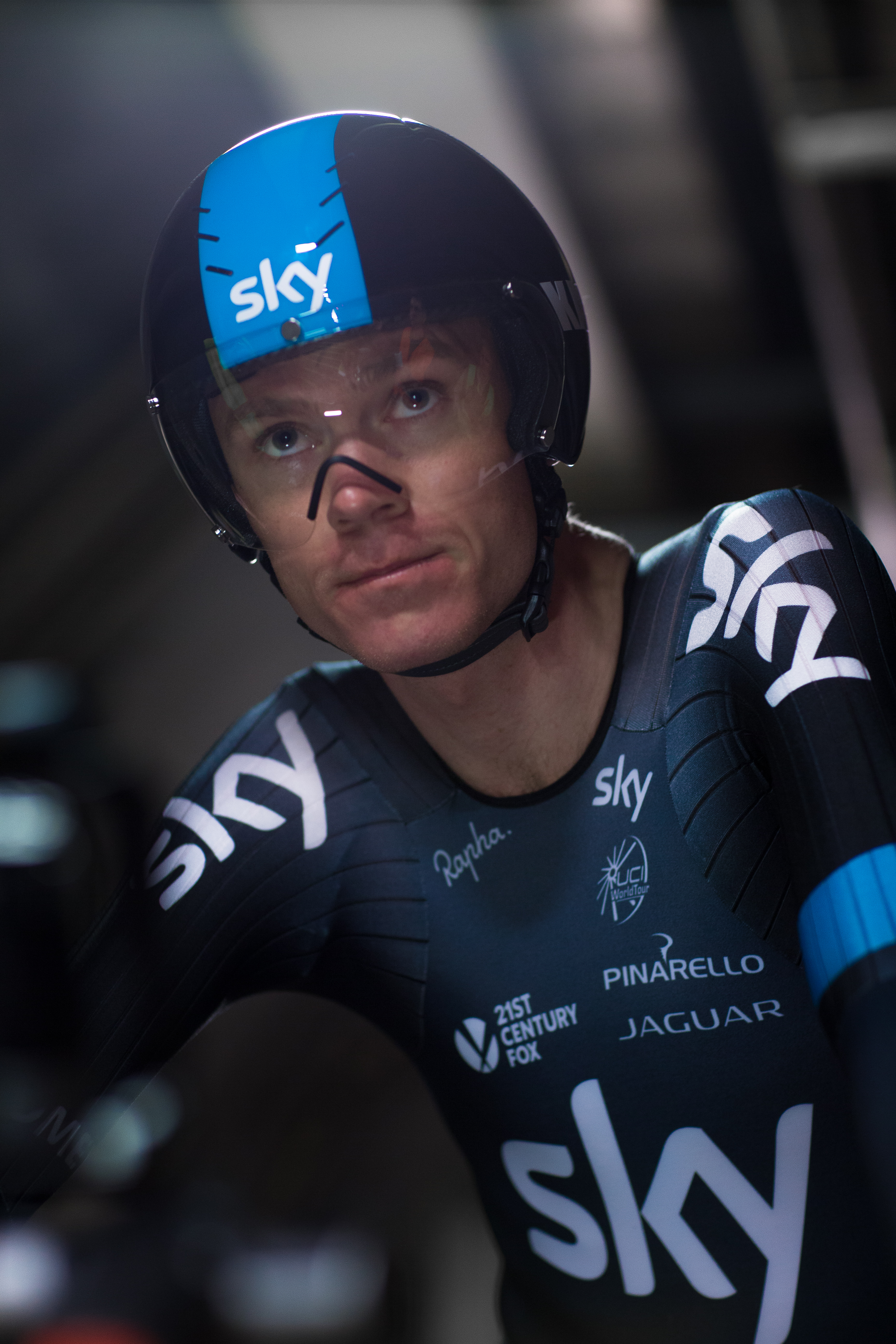 Team Sky rider and Tour de France Winner Chris Froome crosses the English Channel by bicycle, using the Eurotunnel service tunnel and support by Jaguar Cars. As the world’s leading professional cyclists depart the UK after three days of enthralling Tour de France action, Jaguar has released a short film titled “Team Sky – Cycling Under The Sea,” which documents the Team Sky leader riding from the Eurotunnel Terminal in Folkestone on England’s south-east coast, to Calais in France